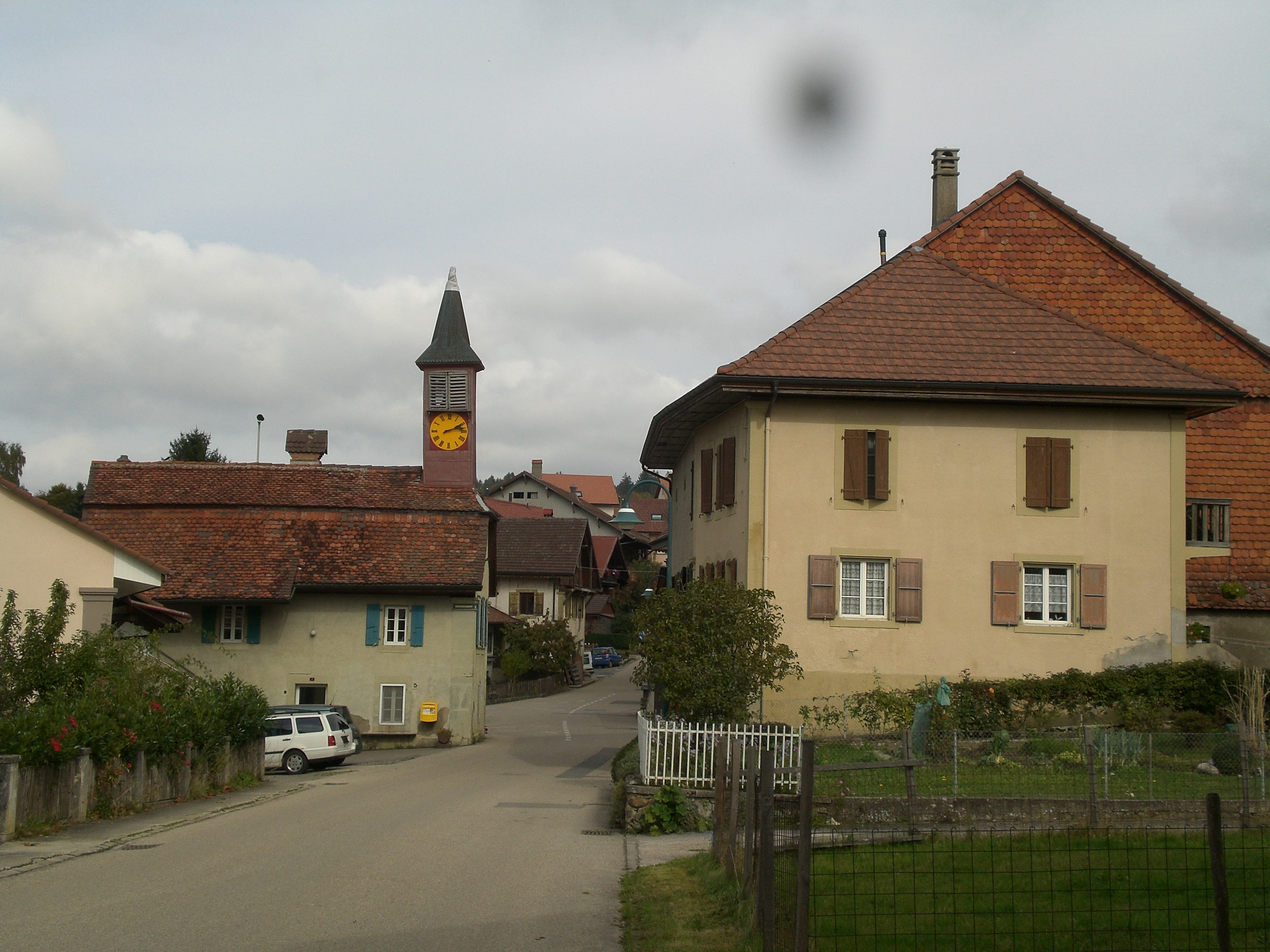 Church and village of Chapelle-sur-Moudon, canton of Vaud, Switzerland